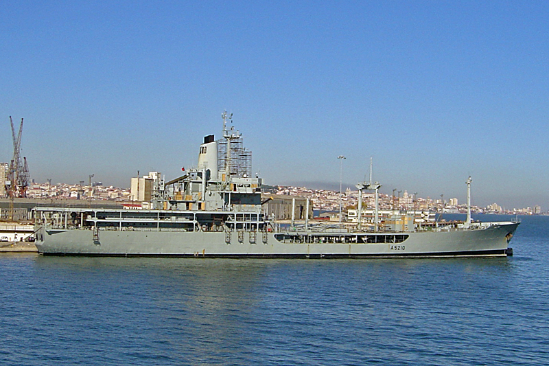 NRP Bérrio, fleet support tanker of the Portuguese Navy. Ex-RFA Blue Rover (A270).